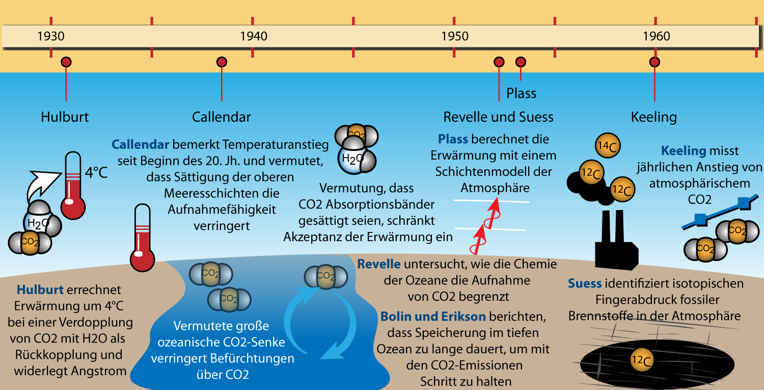 Climate Science Timeline, 1930-1960